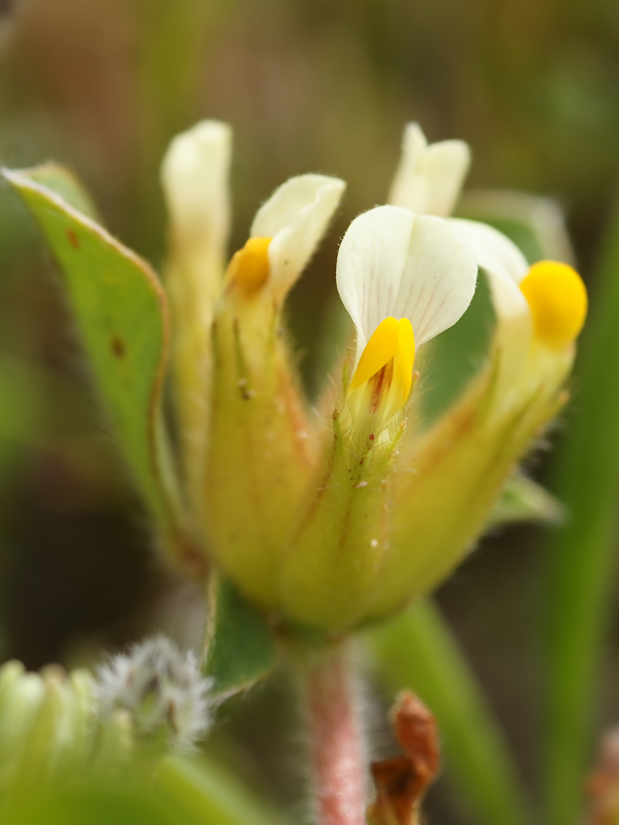 Bladder Vetch near Cala Ses Salinas, Mallorca.